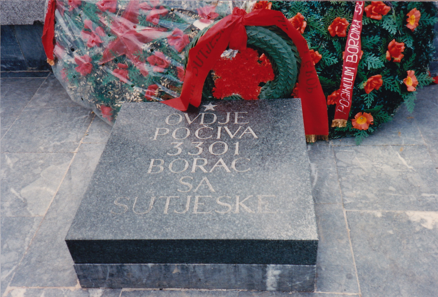 plaque at the Battle of the Sutjeska